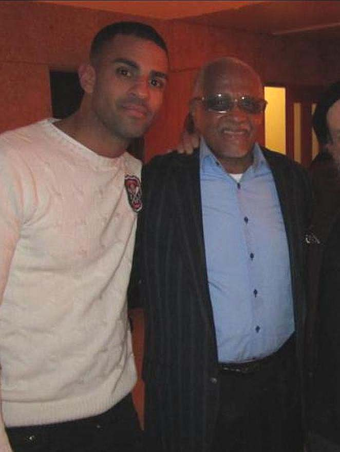 David Tainton and Graham TaintonPlace: Grev Turegatan 30, Stockholm, Sweden